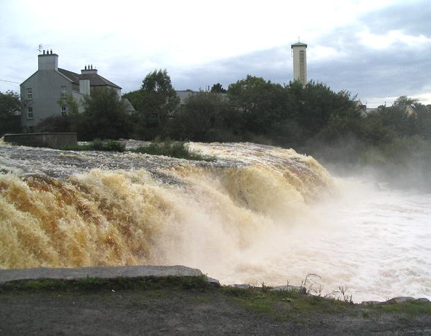 Waterfall at Ennistymon After several days of heavy rain, it looked a bit like Niagara Falls!